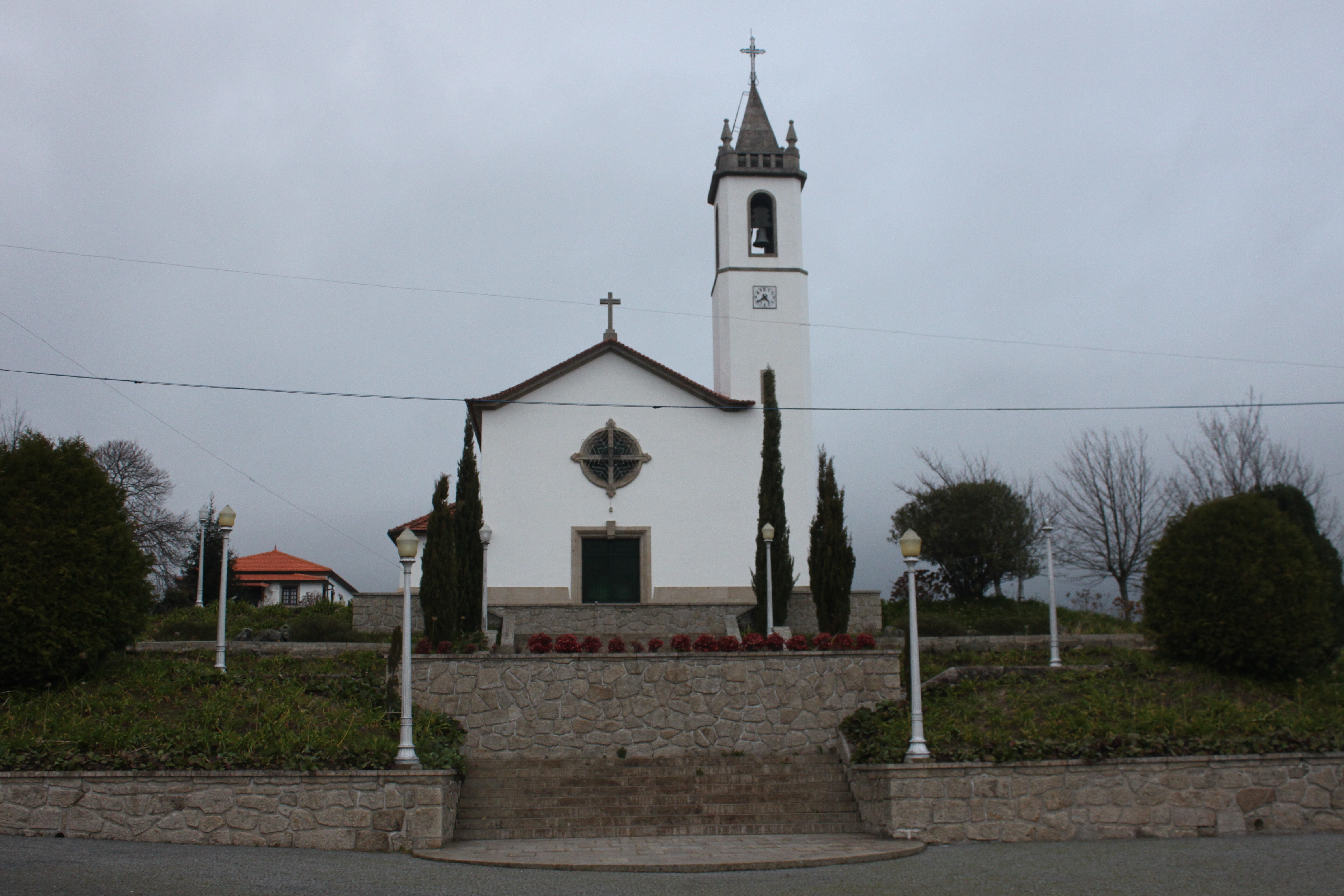 This file was uploaded for Wiki Loves Monuments in Portugal with the unique identifier 97009022.